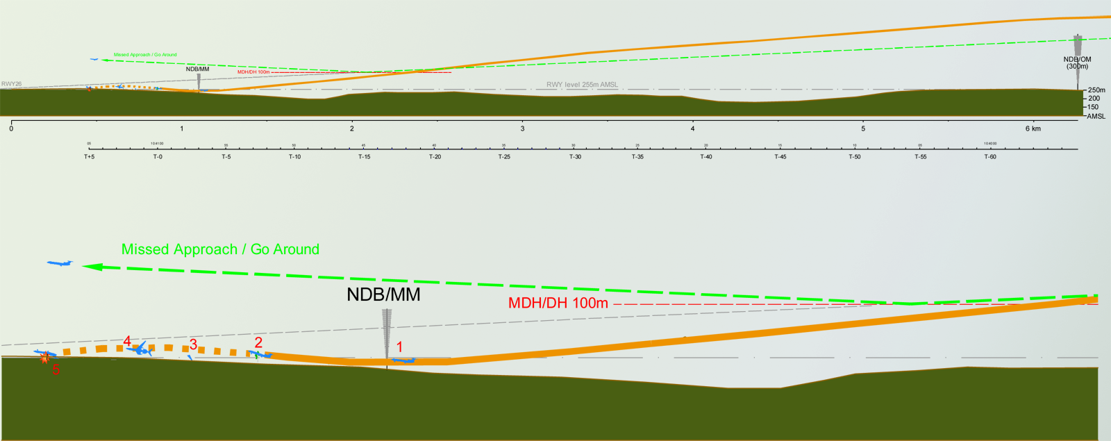 Final approach for Smolensk Nord Airbase RWY 26 First broken branches near NDB/Middle marker Left wing collision with birch tree Broken wingtip Uncontrolled flight with roll Terain impact gray line – correct final approach orange line – actual flight path by the Final report red line – decision height/minimum descent height 100 m (330 ft)